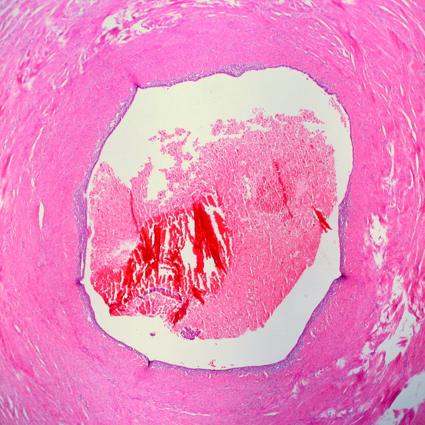 In this pattern, the normal complex, folded tubal mucosa is replaced by flat columnar epithelium with a tin underpinning of specialized endometrial stroma. There are also blood cells in the lumen. Pathological and histological images courtesy of Ed Uthman at flickr.